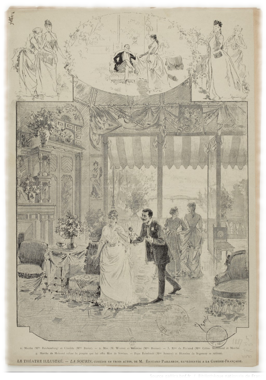 poster of La Souris, a French comedy in three acts, by Édouard Pailleron, which was played at the Comedie Francaise at Paris on November 18, 1887